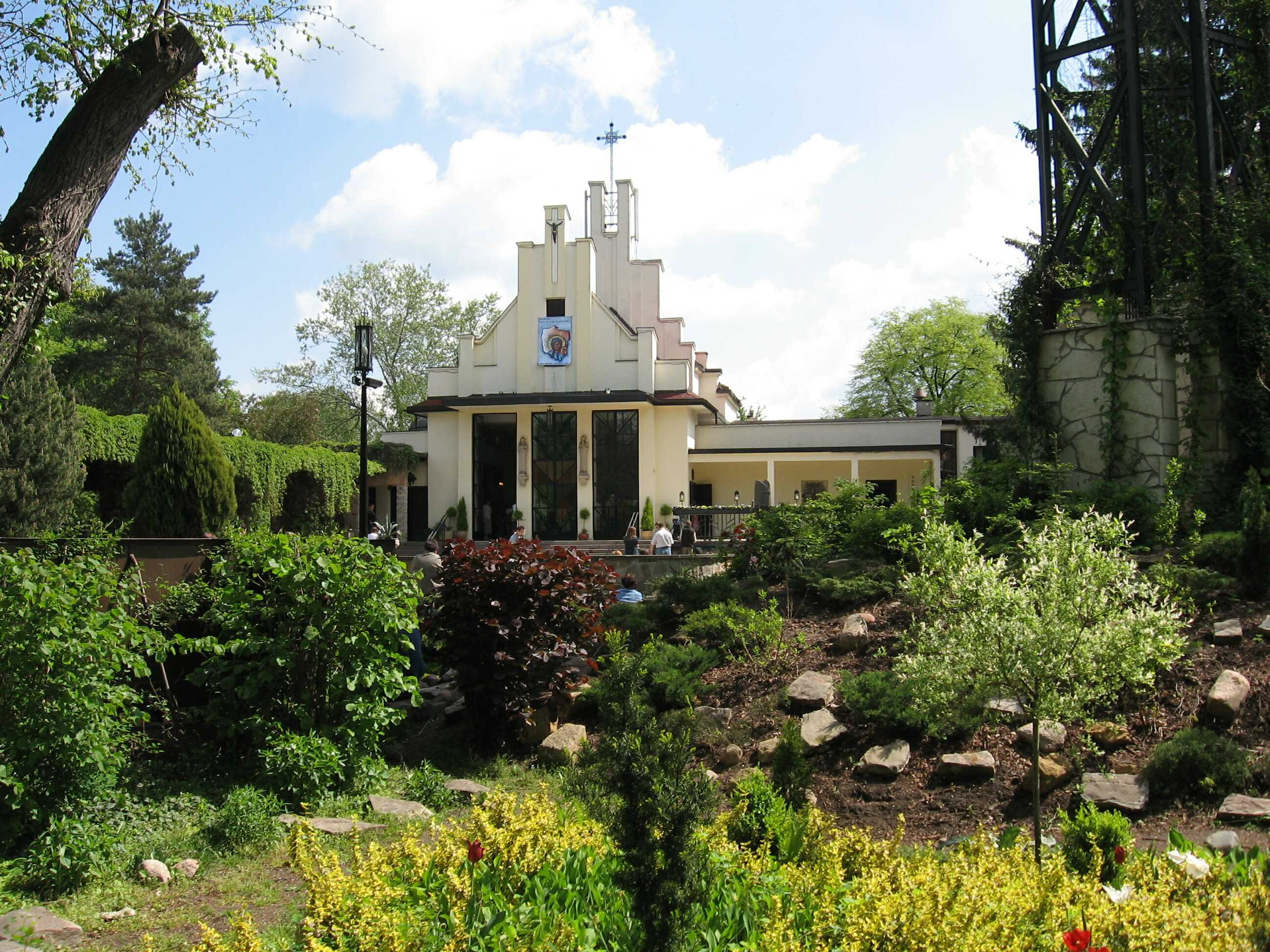 The church in Podkowa Lesna